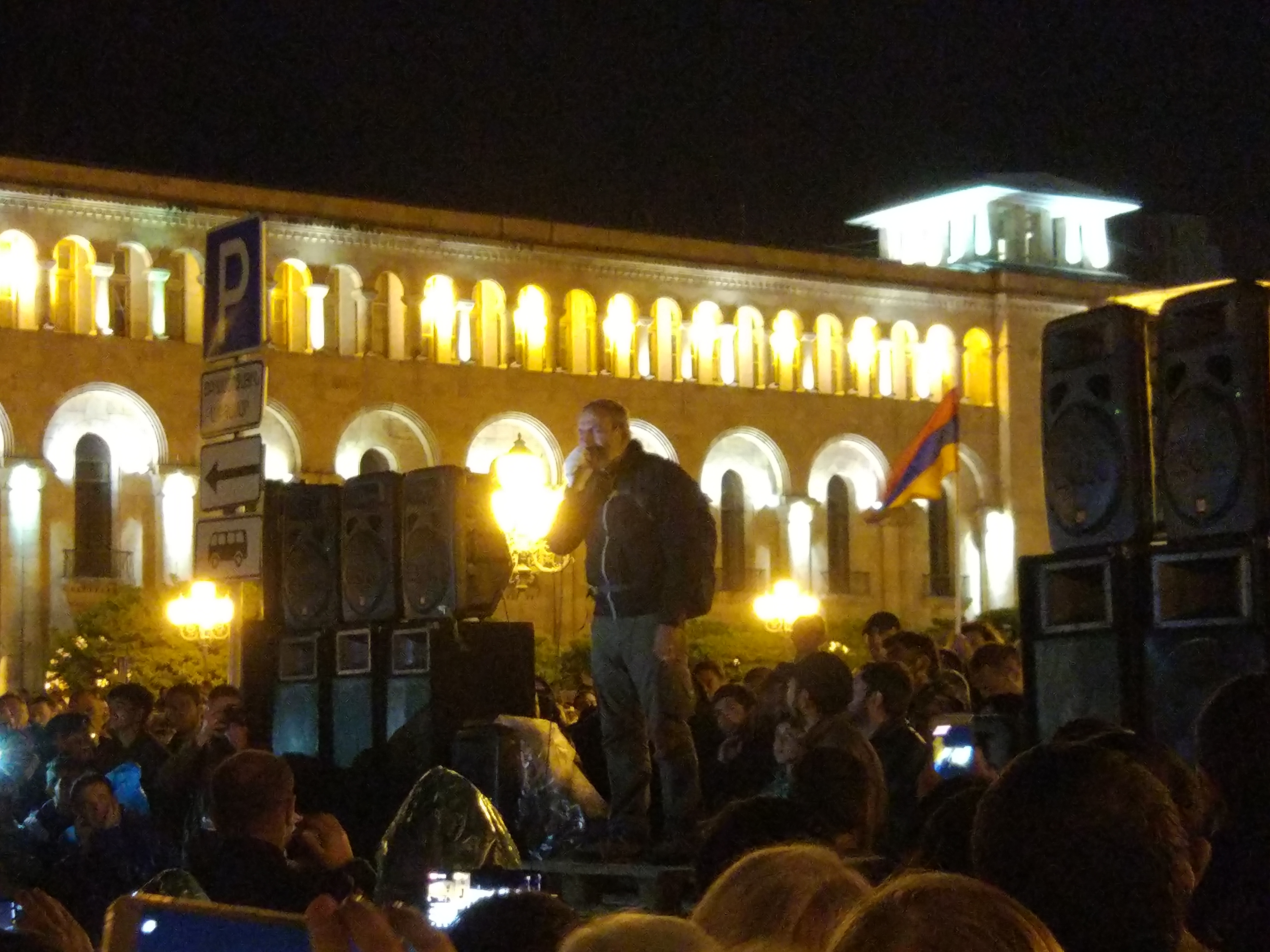 Nikol Pashinyan, Protest demonstration, Yerevan